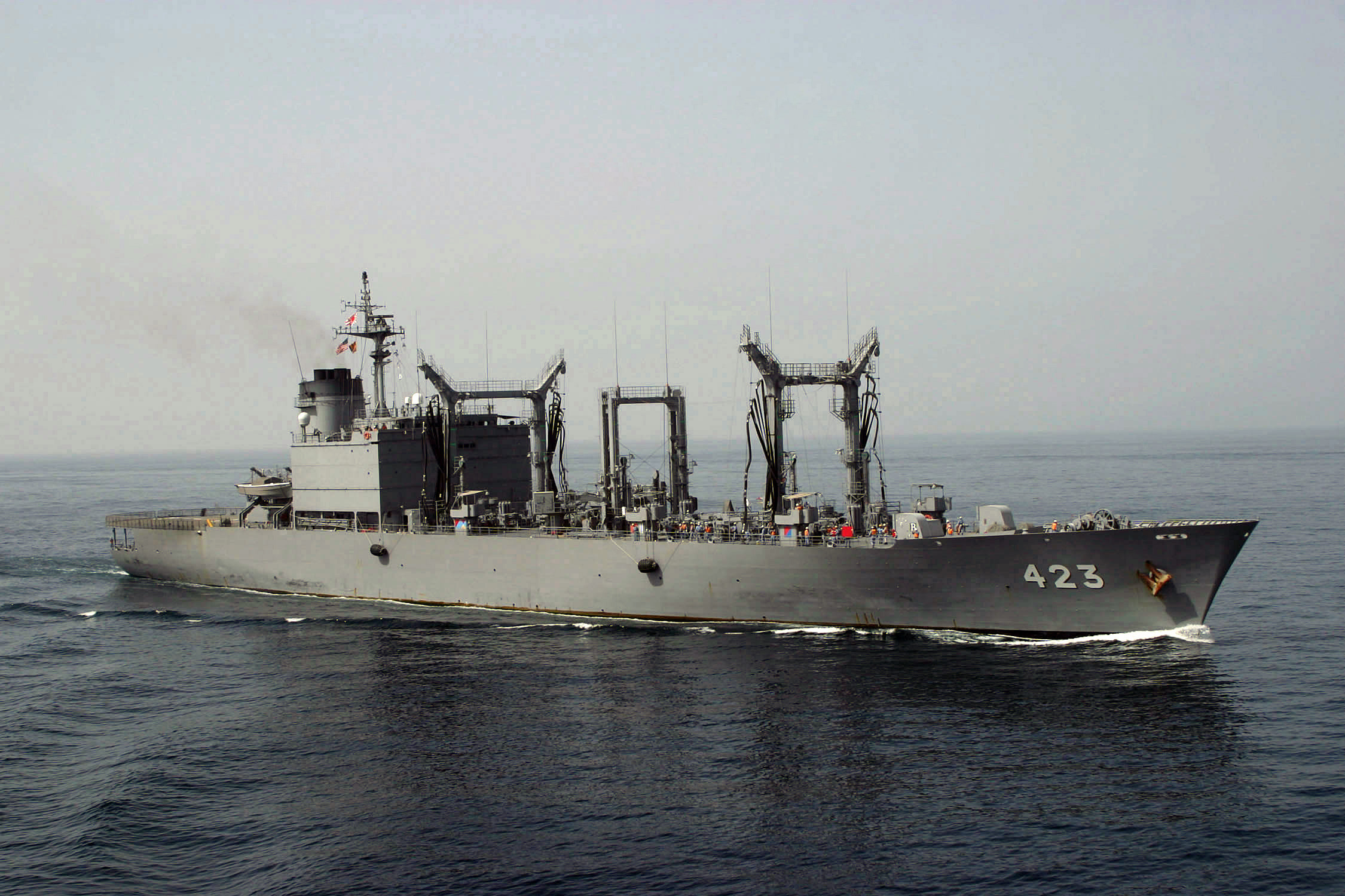 Arabian Sea (March 15, 2006) - Japanese oiler JDS Tokiwa (AOE 423) pulls away from the guided-missile destroyer USS Decatur (DDG 73) after an underway replenishment (UNREP). This replenishment made Decatur the Japan Maritime Self Defense ForceUs (JMSDF) 600th customer. JMSDF routinely provides fuel to U.S. Navy and coalition ships forward deployed to the region in support of the global war on terrorism. U.S. Navy photo by Cryptologic Technician Collection 3rd Class Ryan C. Finkle (RELEASED)